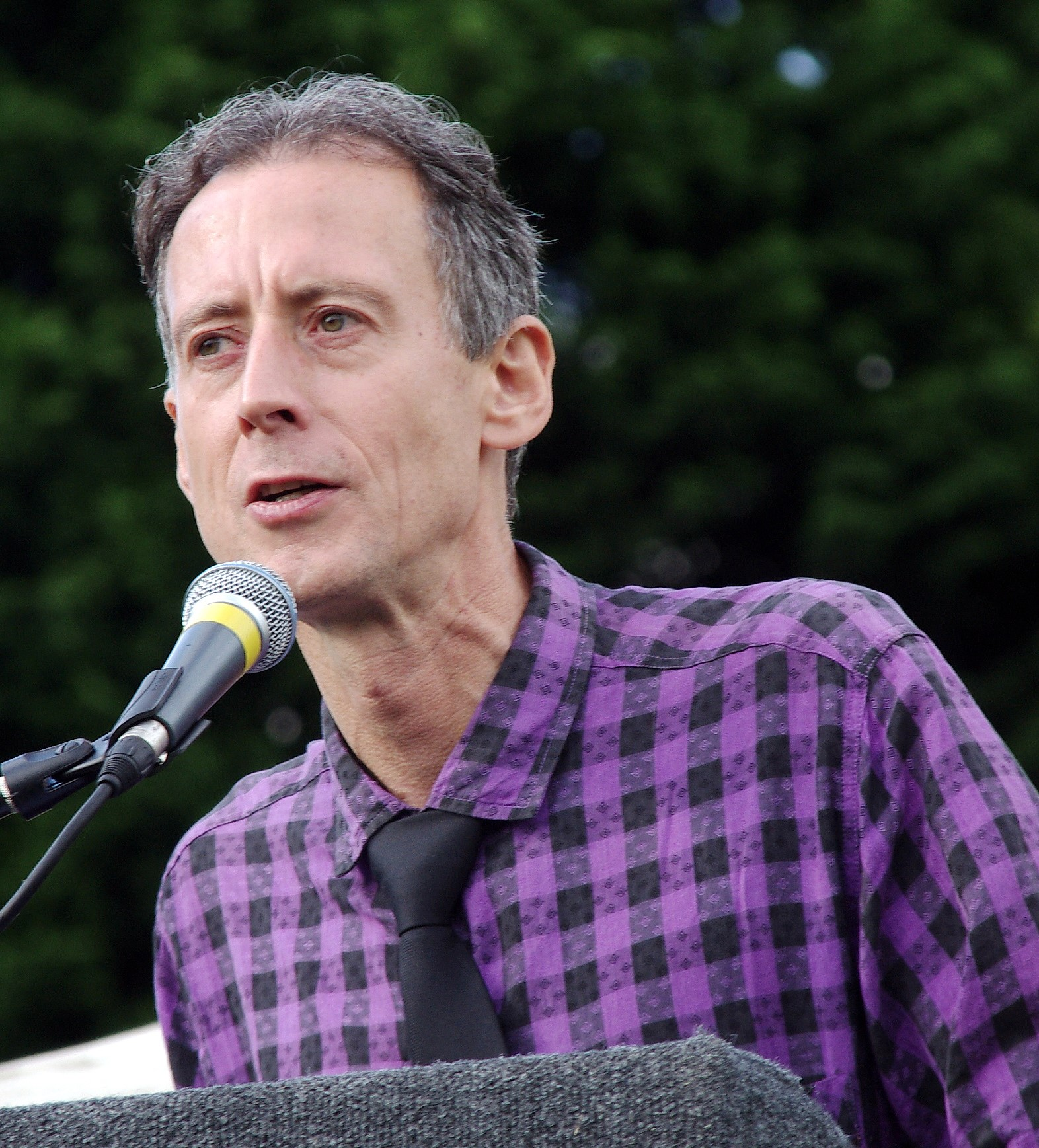 Famous gay rights campaigner Peter Tatchell gives a talk at Nottingham Pride 2010.